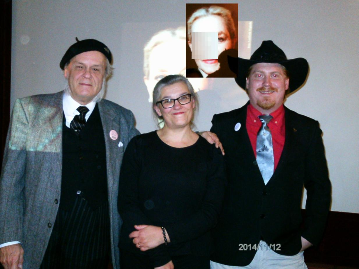 Lars Jacob, Mikaela Kindblom (event hostess) & Emil Eikner at a tribute to Lauren Bacall (whose possibly copyrighed photo has been distorted here)Place: Swedish Film Institute, Solna, Sweden